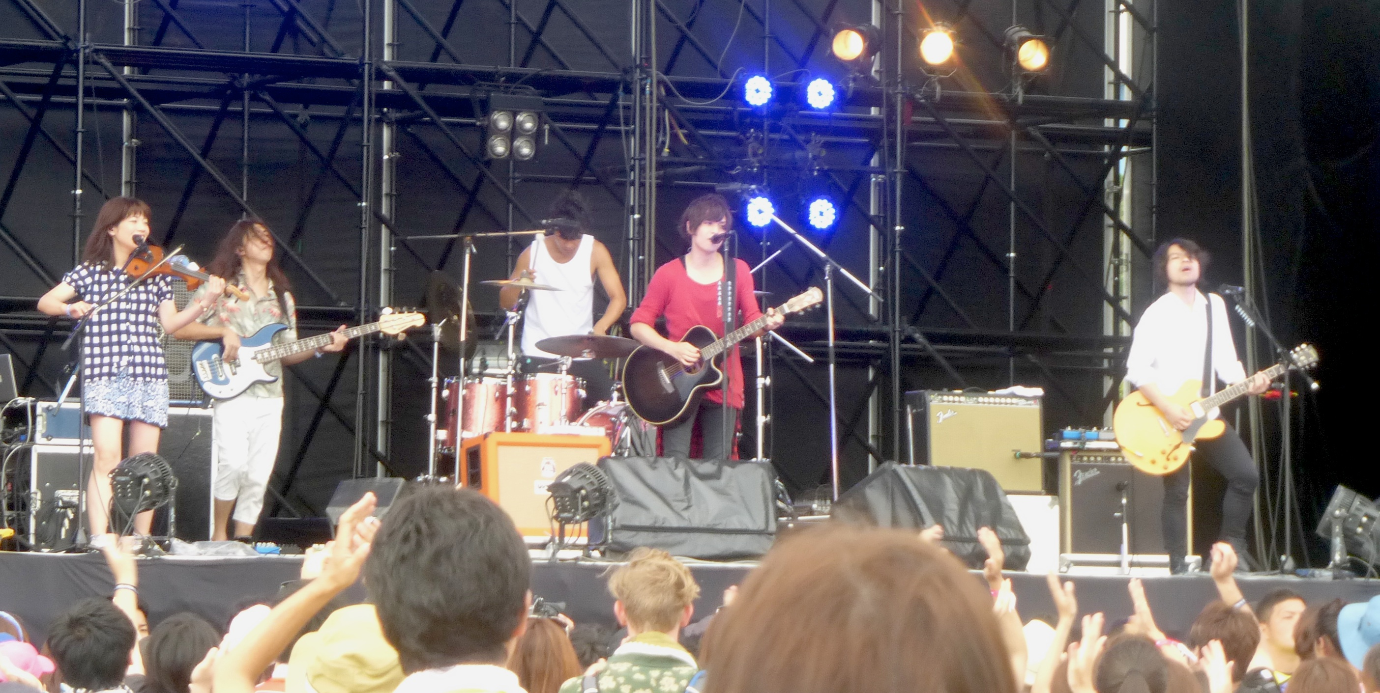 Bigmama performing on the Beach Stage at Tokyo Summer Sonic Festival